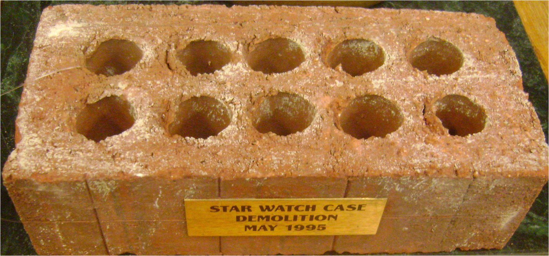 Star Watch building brick block from 1995 demolition